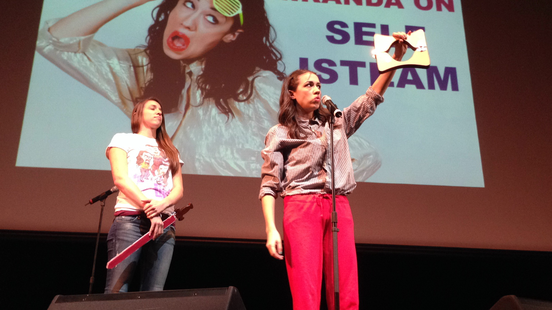 Photograph of Miranda Sings and Rachel Ballinger at North Birch Park Theatre in San Diego, California, on February 8, 2014. The projection in the background, one of Miranda's typical misspellings, says "Self Isteam".